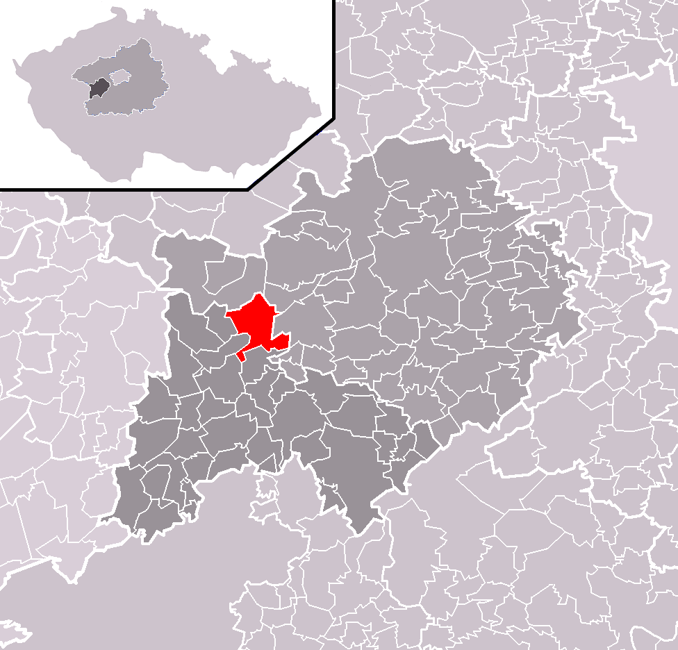 Location of Hředle municipality within Beroun District and administrative area of Hořovice as a Municipality with Extended Competence.